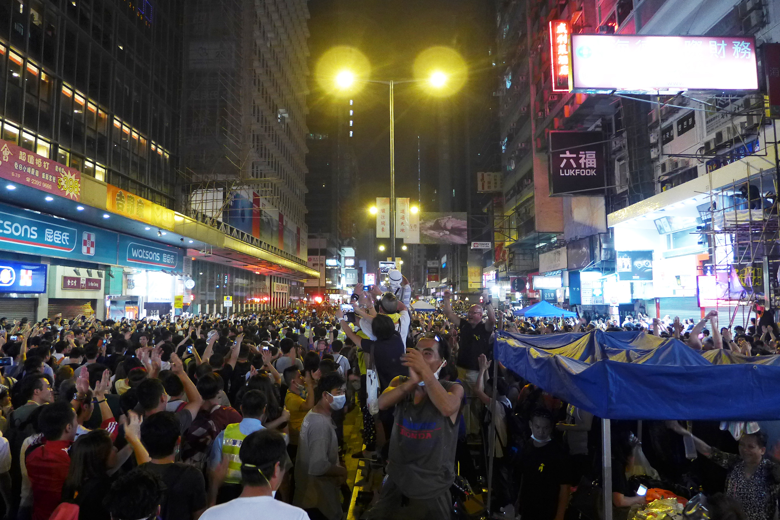 Umbrella Revolution in Mong Kok Nathan Road